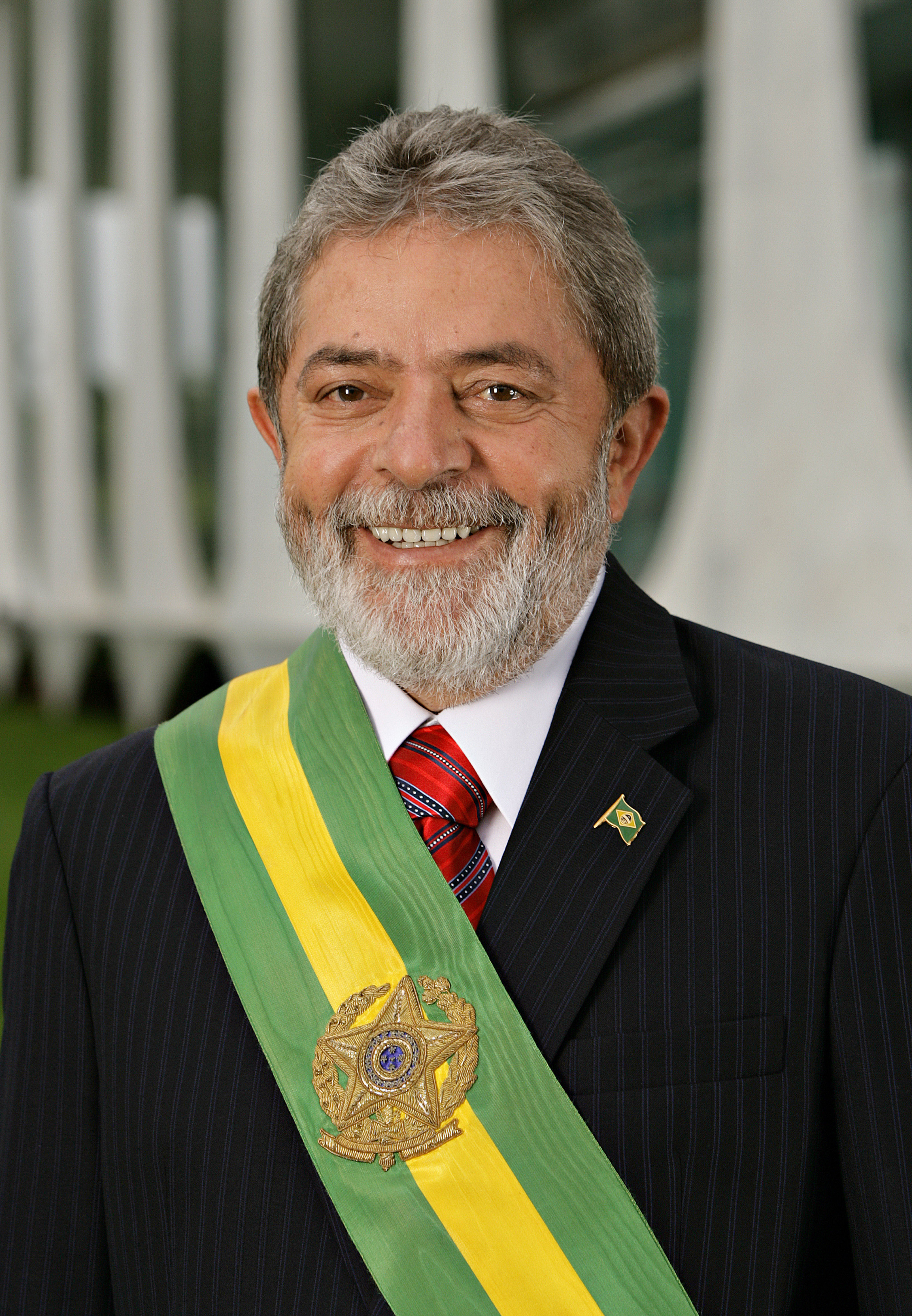 Luiz Inácio Lula da Silva, President of Brazil.